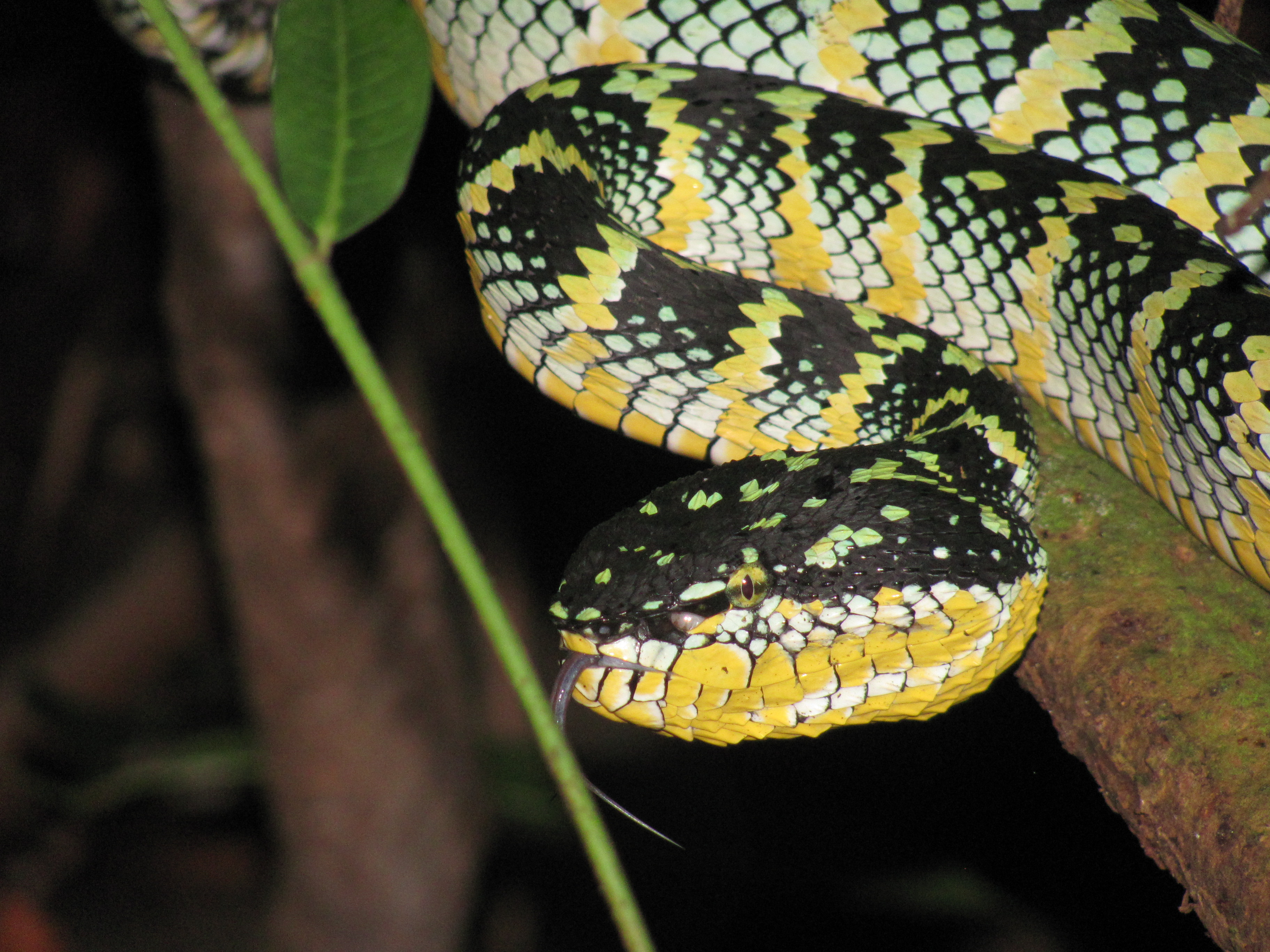 Pit Viper, Gombak Valley, Malaysia